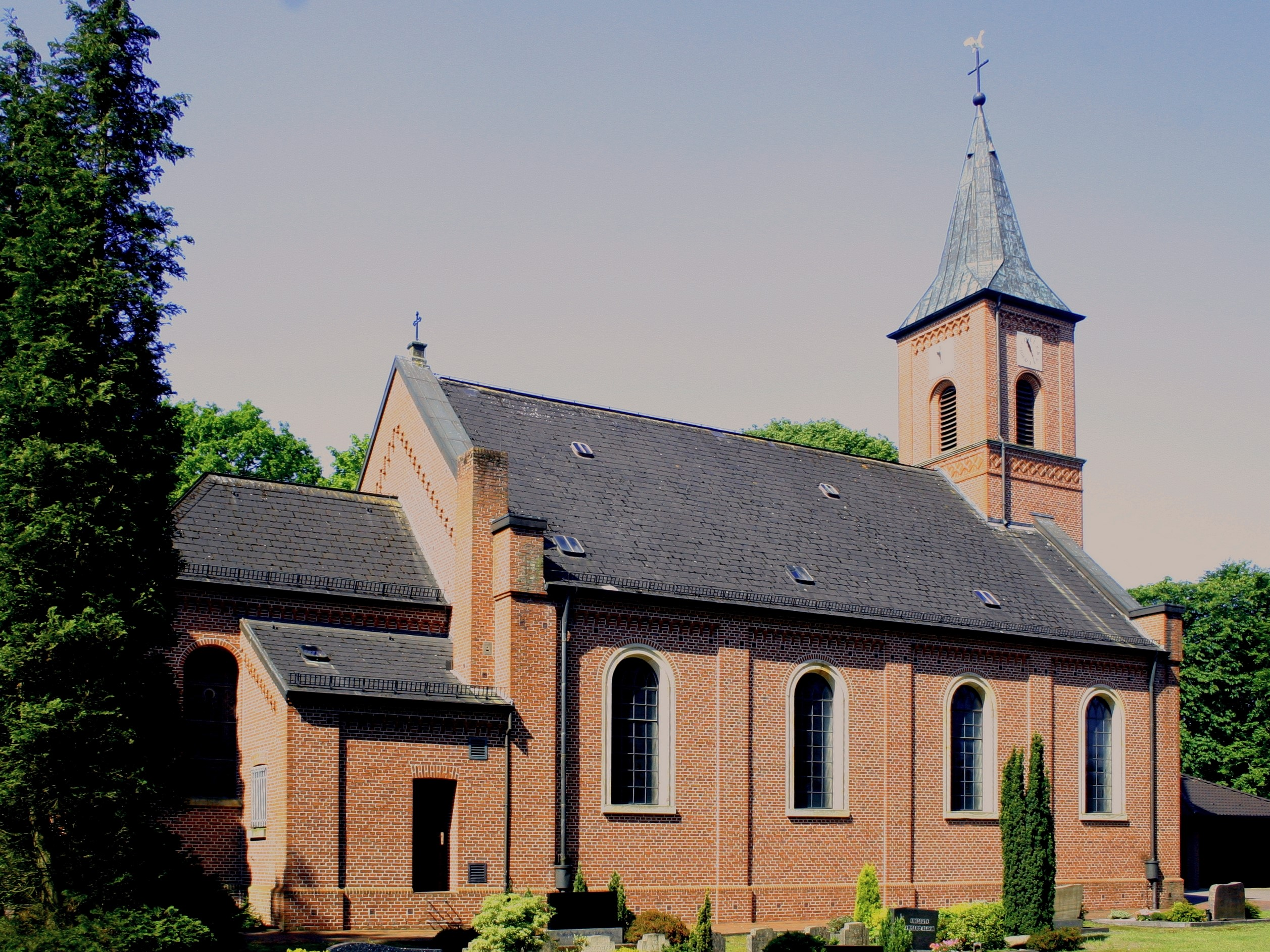 Historic church (cath.) in Flachsmeer, district of Leer, East Frisia, Germany